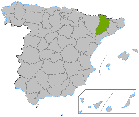 Location of the province of Lérida, in Spain. Basado en: ProvPont.jpg Source: Designed by Satesclop. Original picture, designed by Sobreira.